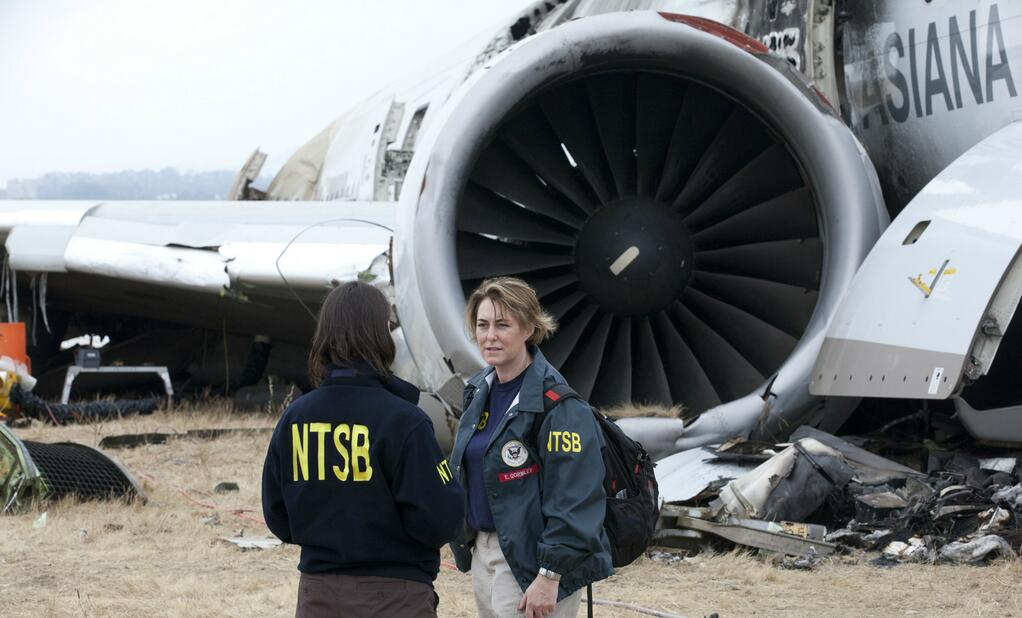 NTSB Chairman Deborah Hersman receives overview of Asiana Airlines Flight 214 accident site by NTSB engineer Erin Gormley.